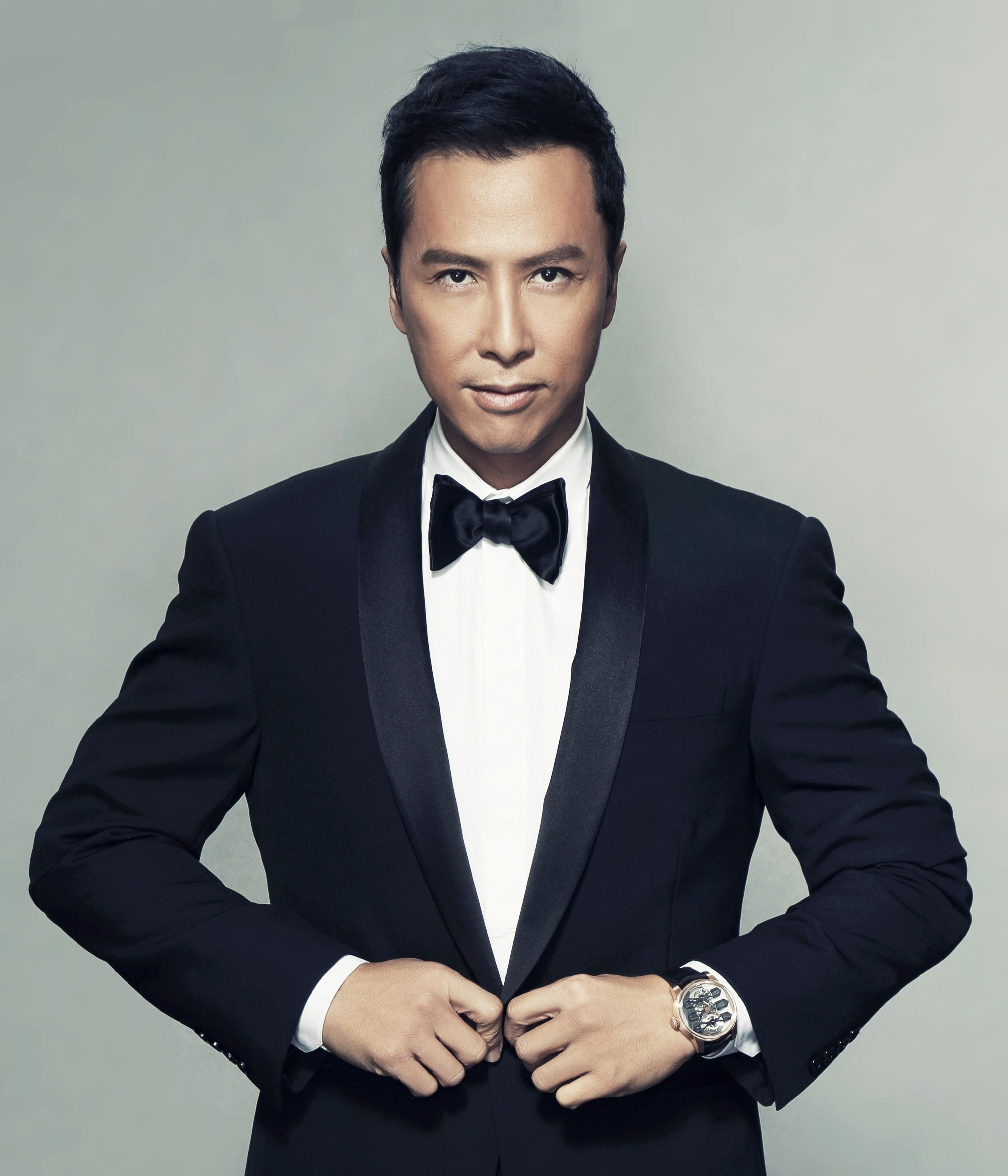 Donnie Yen Formal Photoshoot by team